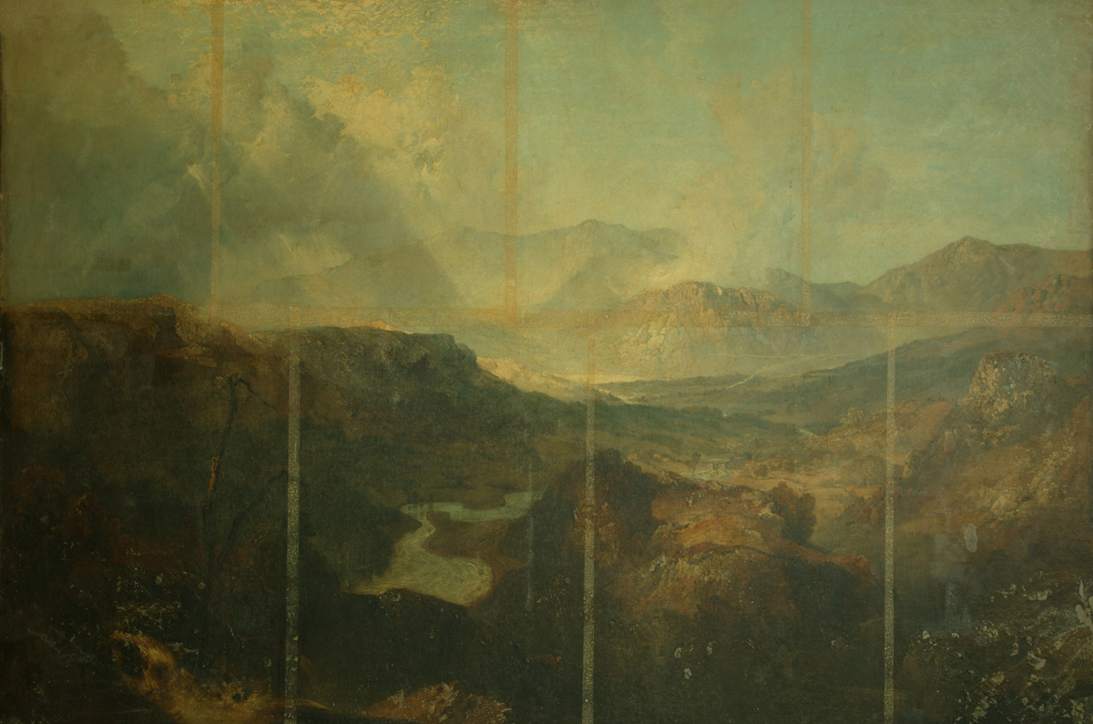 Mountains and Clouds – A Scene from the Top of Loughrigg, Westmoreland. Loughrigg Fell, now in Cumbria, England, is a hill in the English Lake District.